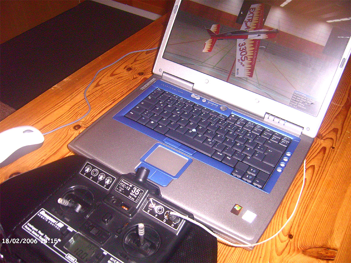 Aerofly Professional Model Aircraft Simulation, Germany 2006